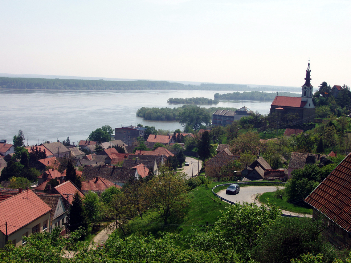 Panoramic view of (Stari) Slankamen in Vojvodina (Serbia)